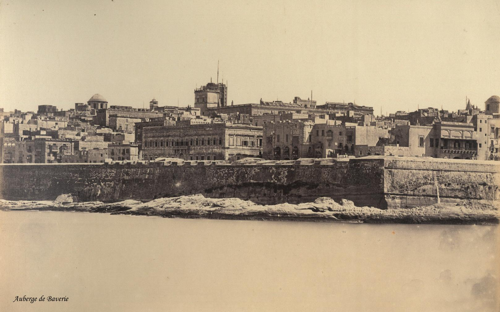 Valletta, Auberge de Baviere (Circa 1864)